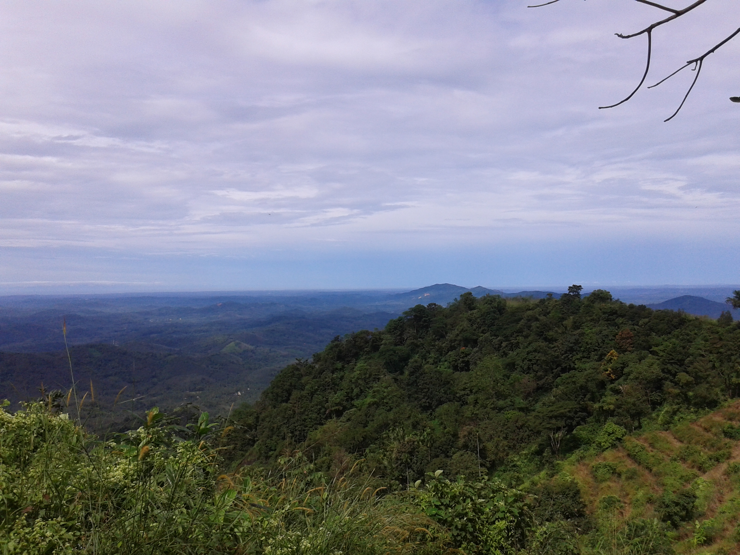 Elapeedika